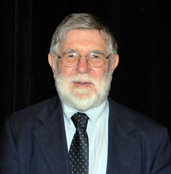 Photograph of Dr. Juan Rosai